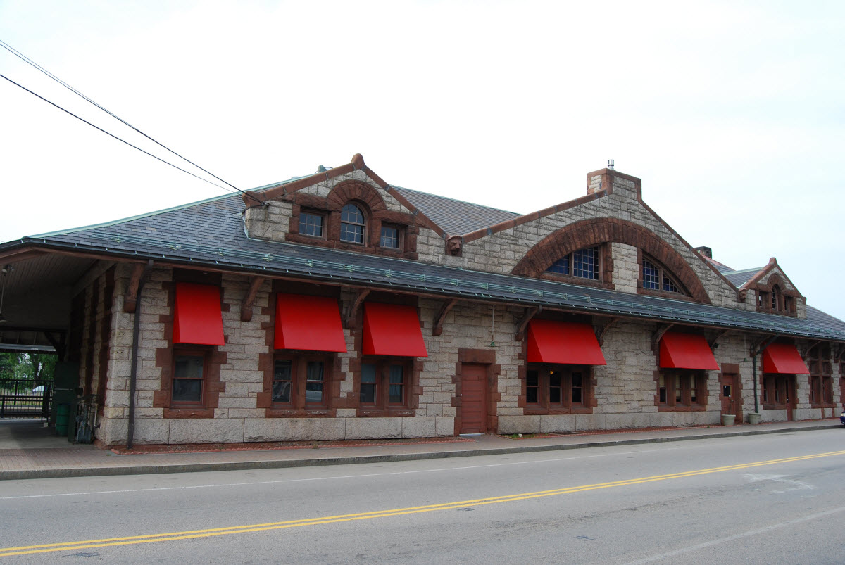 Framingham Railroad Station, Massachusetts